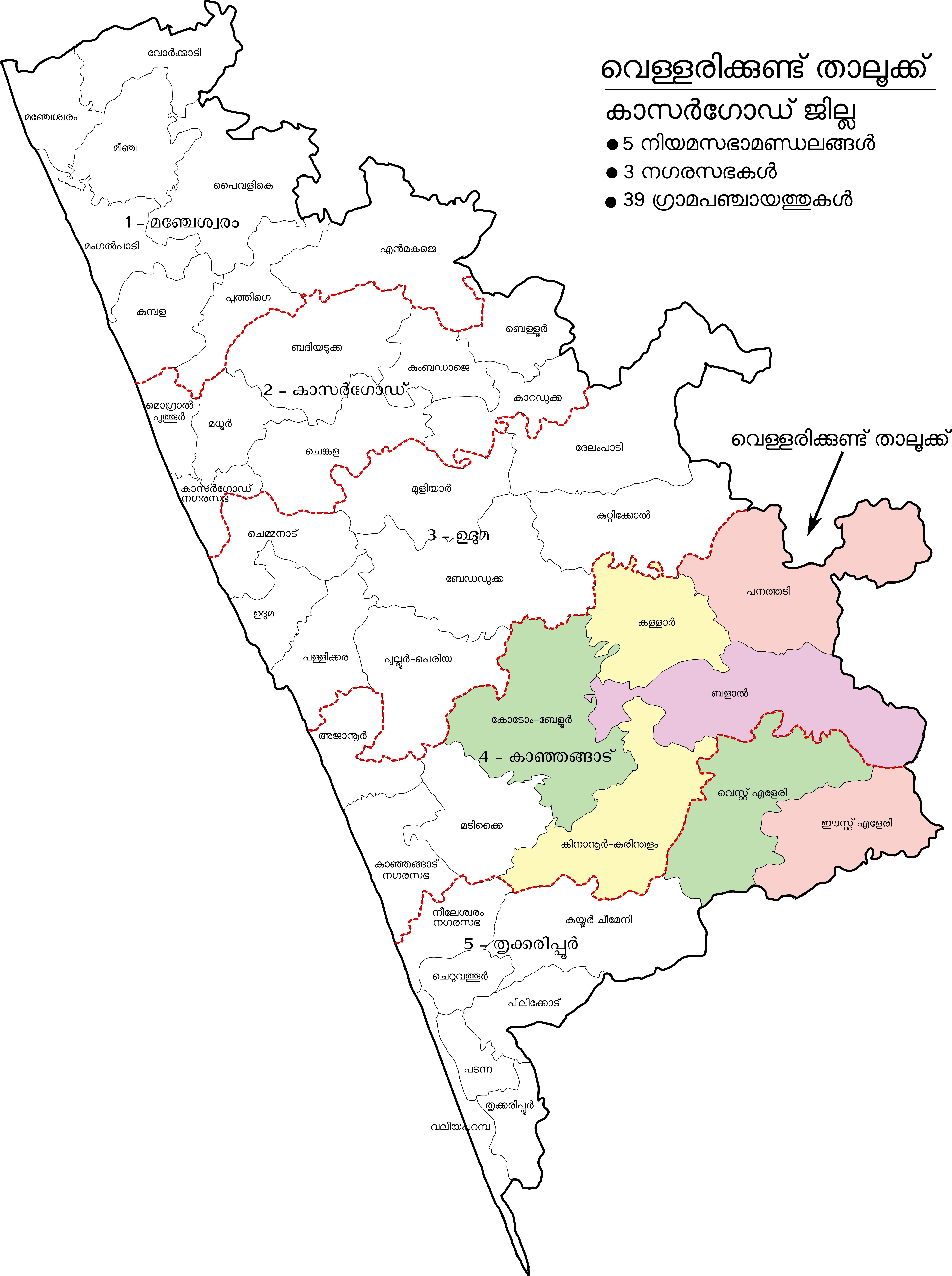 Blocks and Grama-panchayats of Vellarikundu Taluk